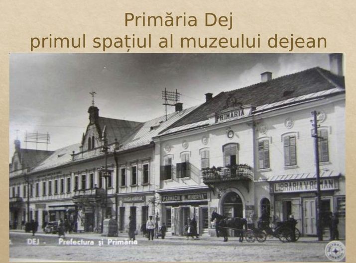 The Museum of Dej, founded by Victor Motogna, deputy in the Great National Assembly from Alba Iulia - Romania, 1918Română: Muzeul din Dej, fondat de Victor Motogna deputat în Marea Adunare Națională de la Alba Iulia, 1918